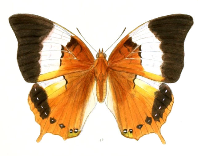 Haridra psaphon